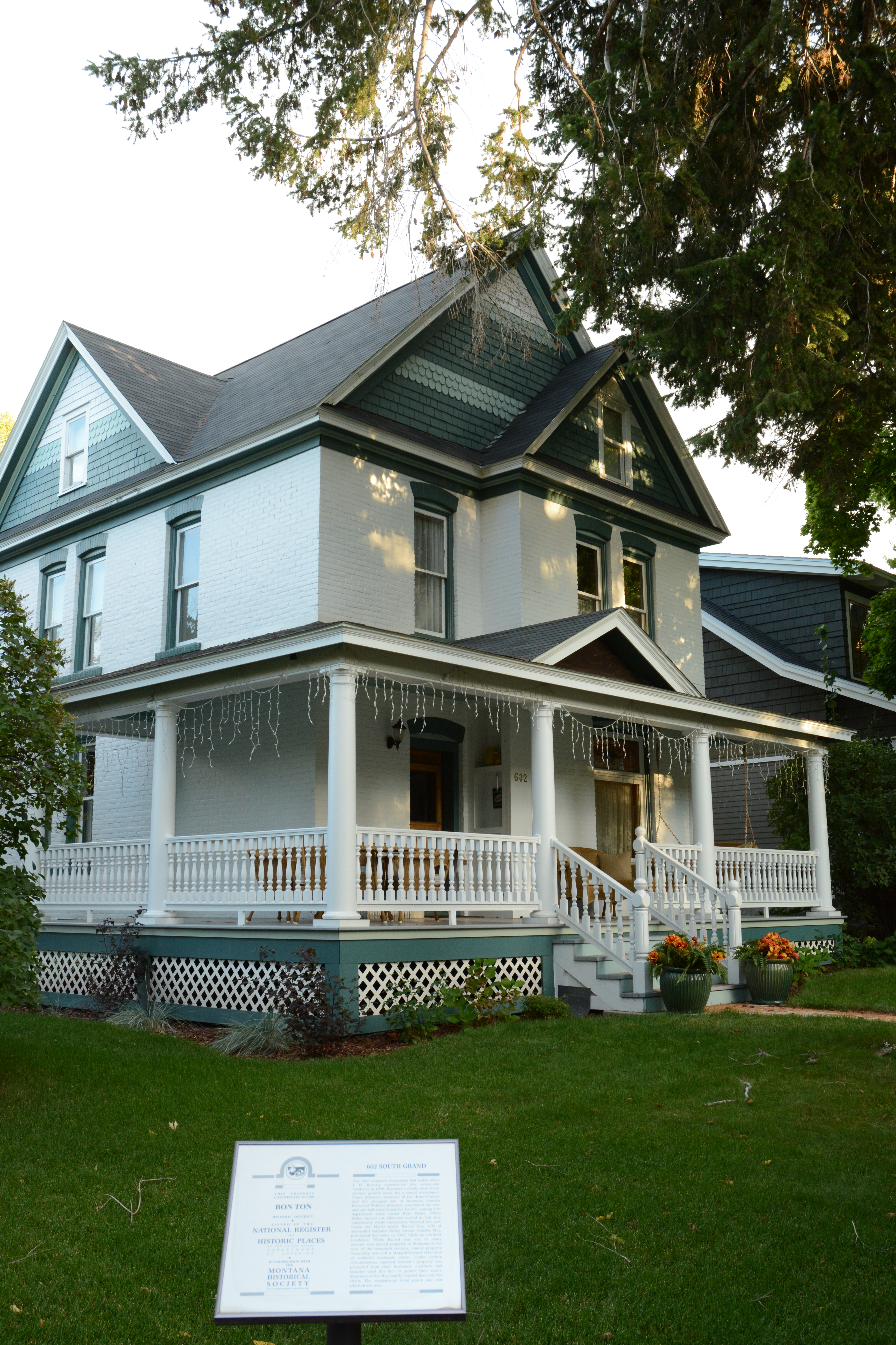 Bon Ton Historic District House at 602 South Grand in the Bon Ton Historic District in Bozeman, Montana